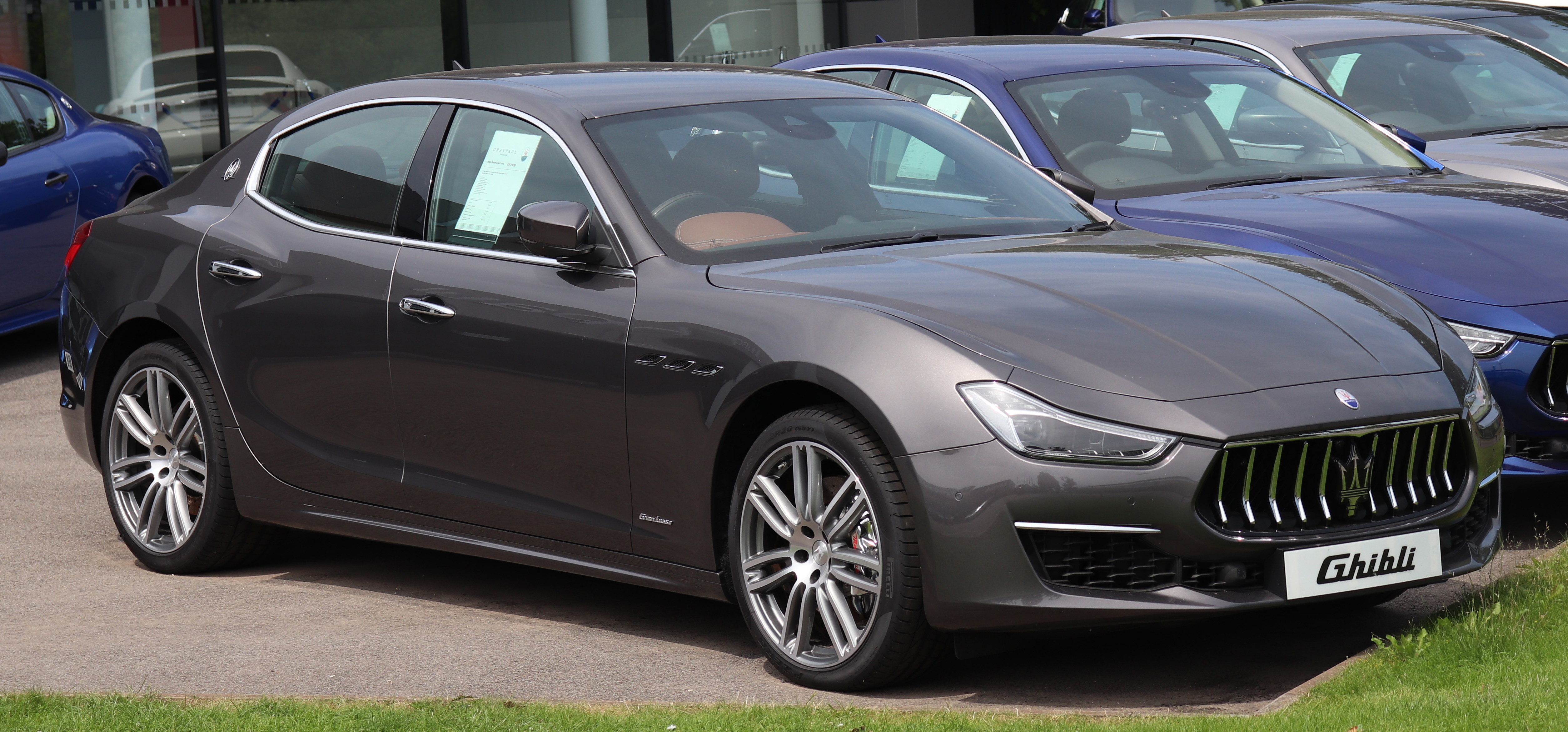 2018 Maserati Ghibli GranLusso Diesel 3.0 facelift Front Taken in Solihull